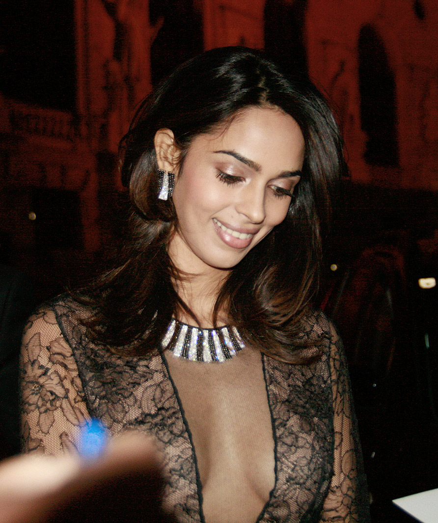 Mallika Sherawat at the Romy TV awards (Hofburg Imperial Palace in Vienna)